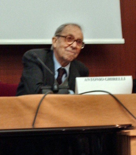 Antonio Ghirelli attending a meeting at Galassia Gutenberg (a book fair)